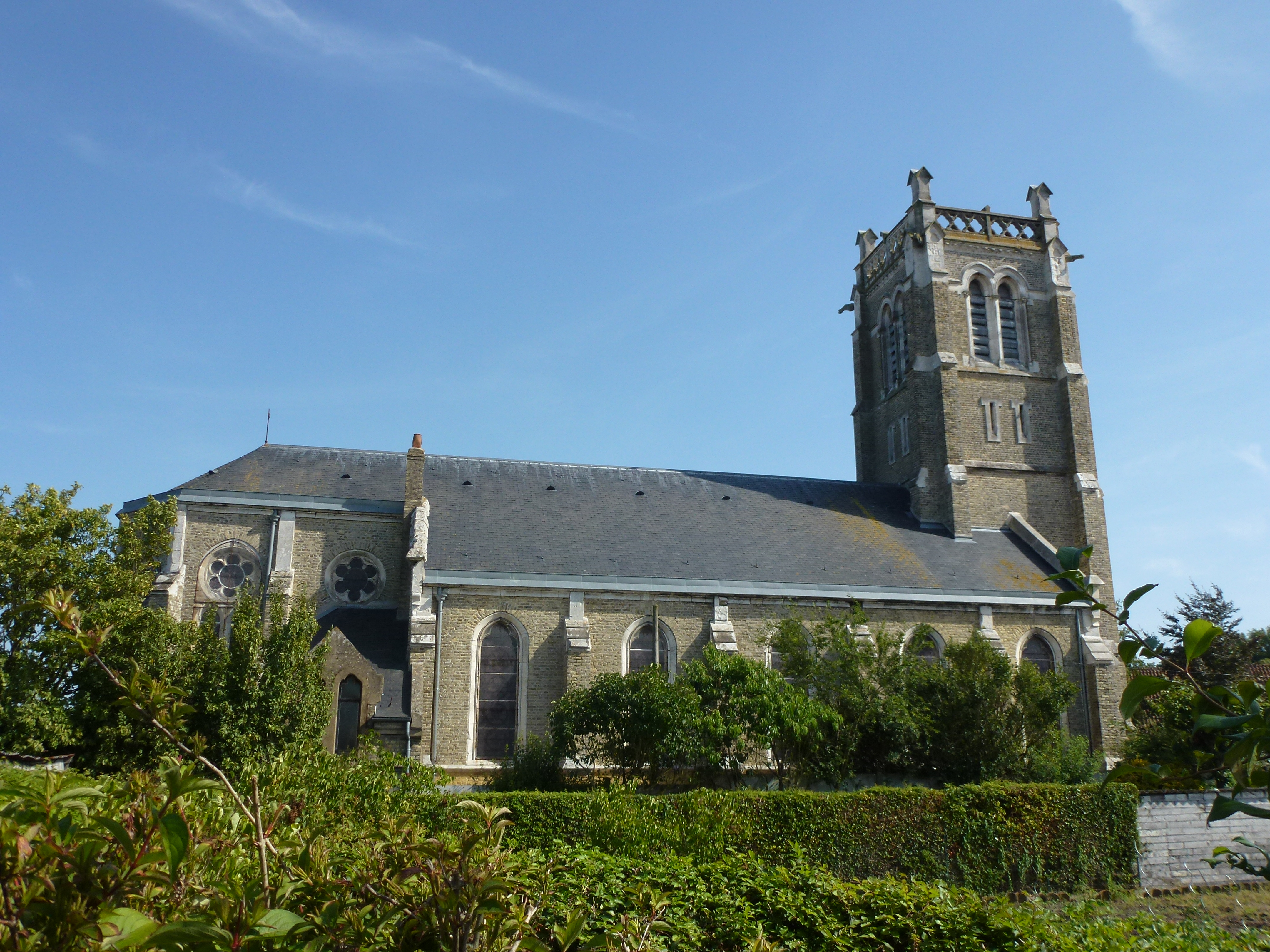 Ardres (Pas-de-Calais) Bois-en-Ardres église Saint Joseph